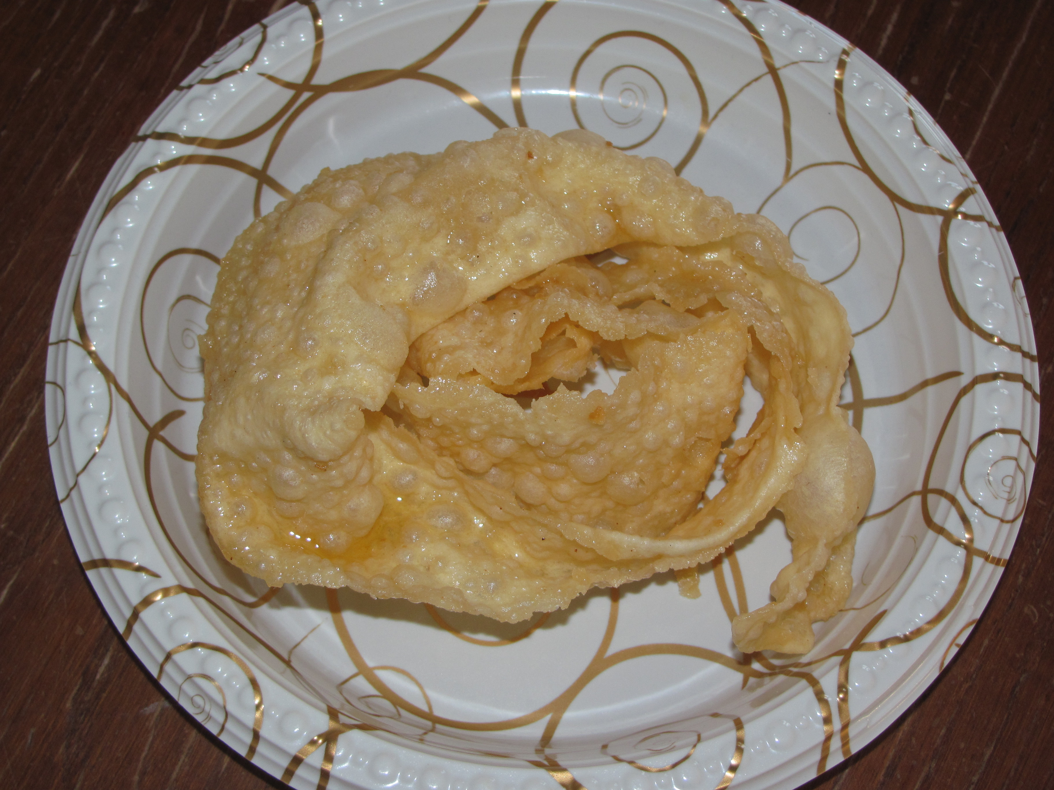 Homemade sfenj, deep-fried dough coated with honey